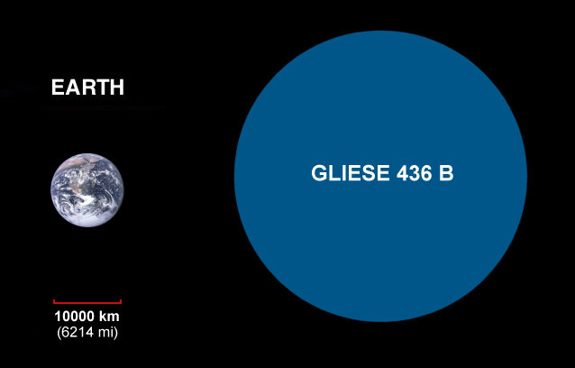 Earth and Gliese 436 b, Based upon Image:Gliese581cEarthComparison2.png